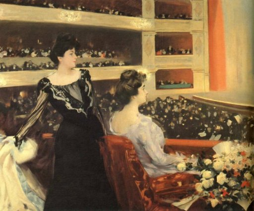 The Liceu, by Ramon Casas, Cercle del Liceu, Barcelona, 1901-1902